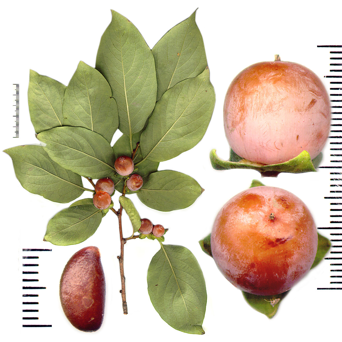 Diospyros lotus fruits and seed